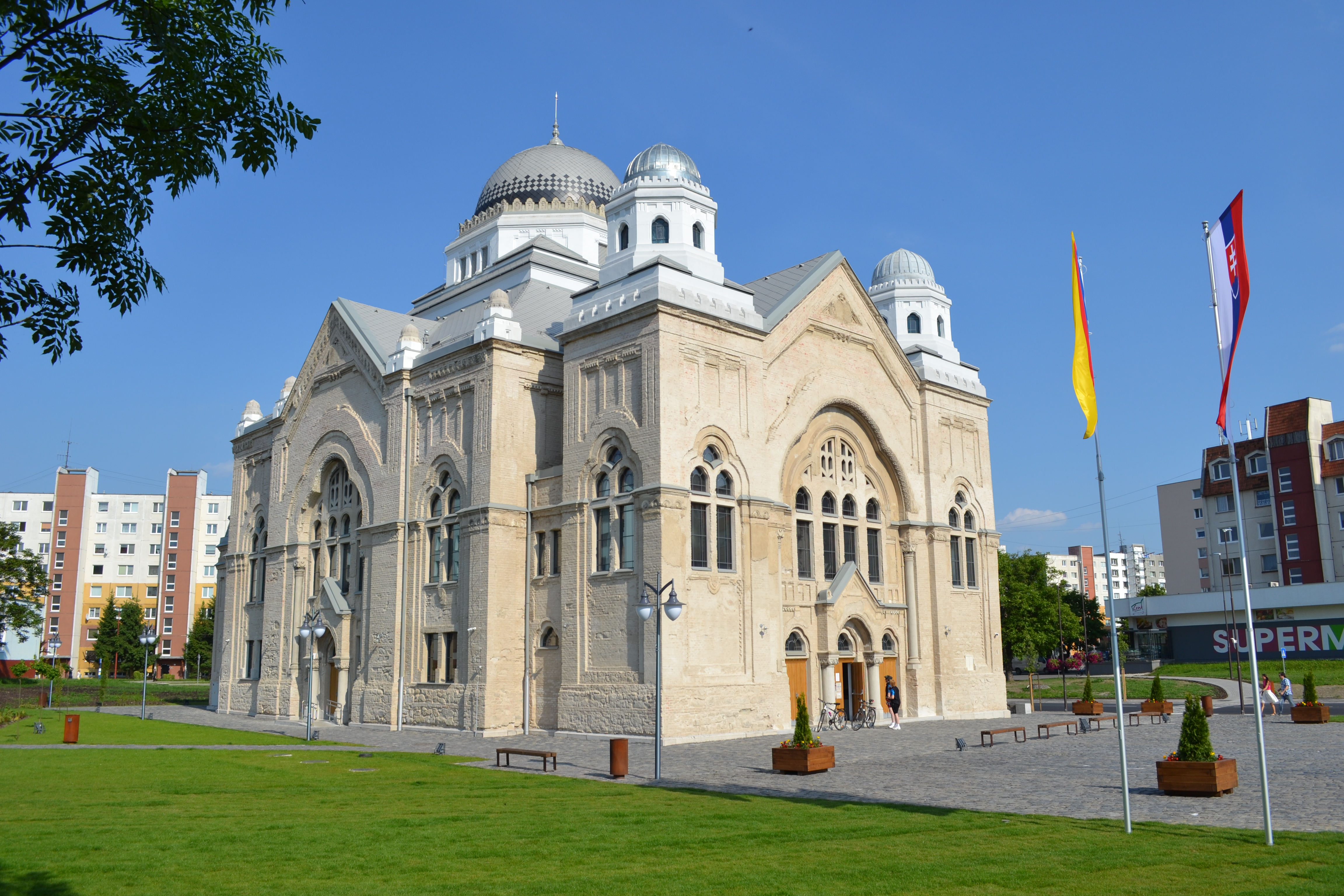 Synagogue has been built between 1923-1925 on the site of an earlier Moorish-style building from 1863. It was designed by Hungarian architect Lipót Baumhorn. It was consecrated on 9 of August 1925. It is ranked among the largest synagogues in Europe.